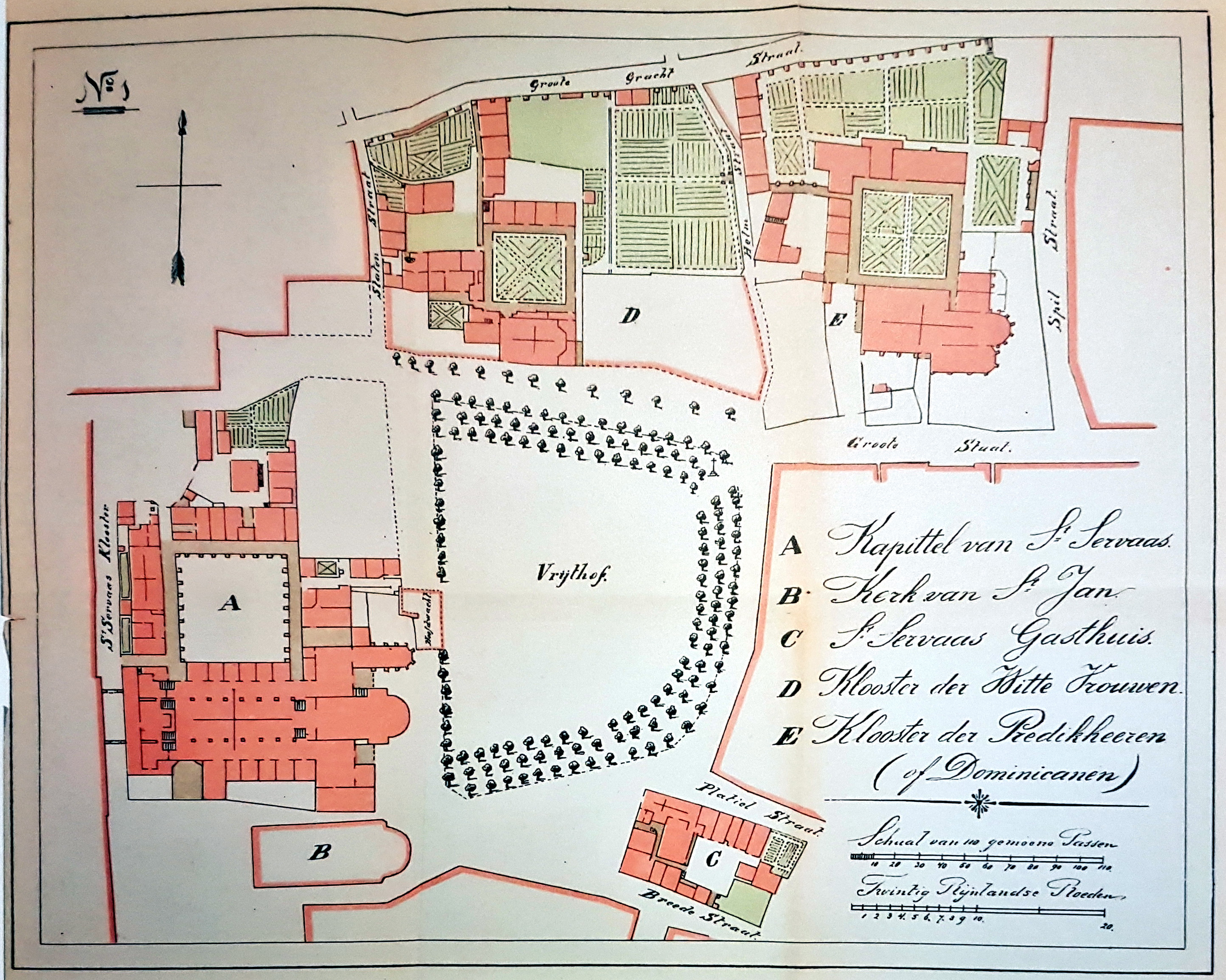 Map of five religious institutions around Vrijthof in the city of Maastricht, the Netherlands. This and other maps were draughted by an unknown cartographer(?) for Baron Von Geusau. The maps reflect the situation in Maastricht as it existed in the late 18th century, before the dissolution of the monasteries. They were published in an article entitled Korte geschiedenis der kloosters in Maastricht (Short history of the monasteries in Maastricht) in PSHAL, 1895. Photographed in 2017 at an exhibition in Centre Céramique.